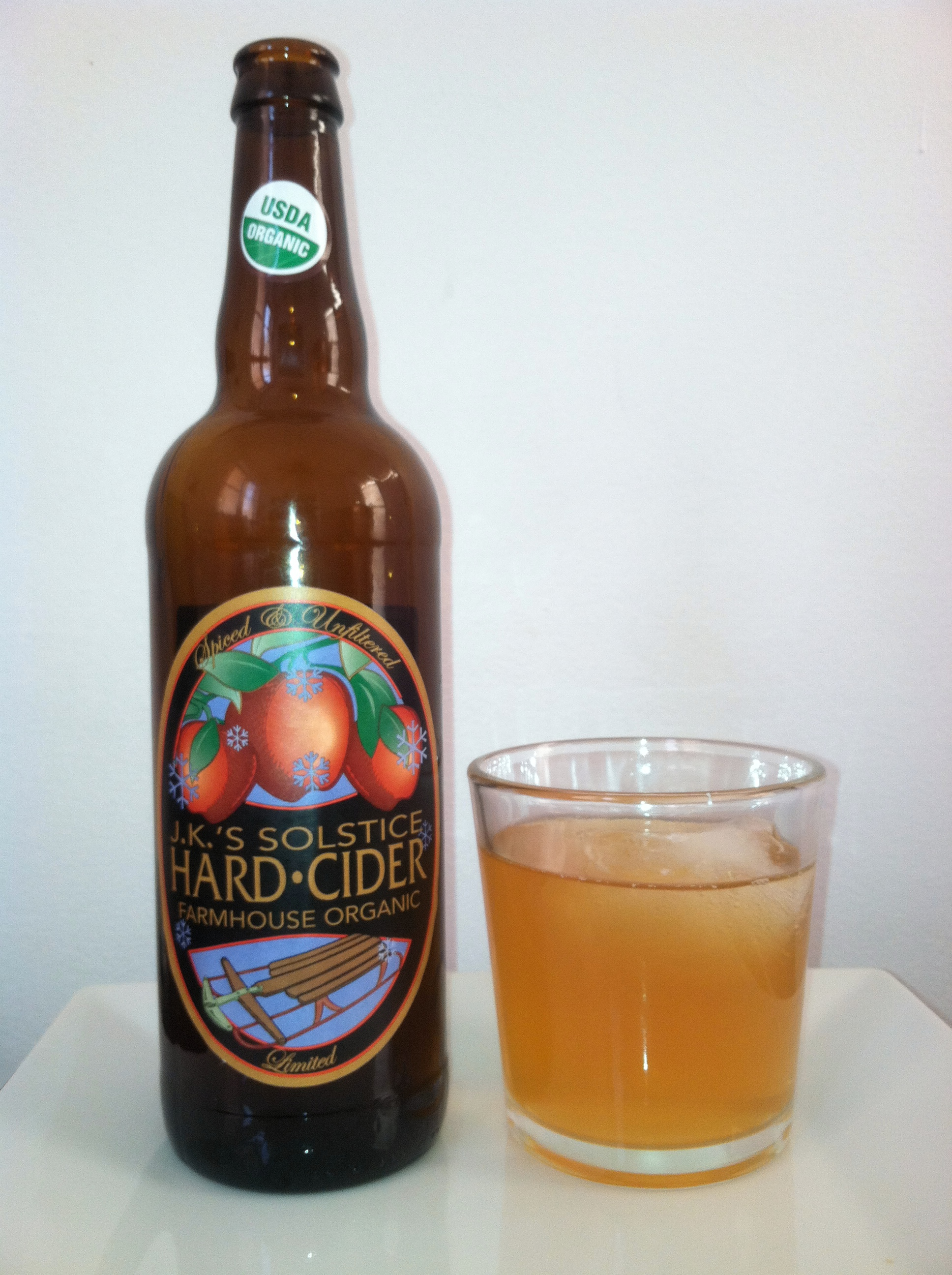 Bottle of J.K.'s Solstice Hard Cider farmhouse organic limited, also poured into a rocks glass. Produced by Almar Orchards, Flushing, MI.